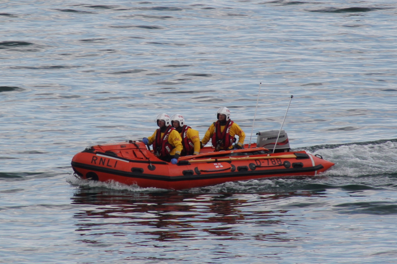 The Torbay inshore lifeboat D-788 Leslie & Mary Daws crossing the bay on a 'shout' to assist an injured kayaker.